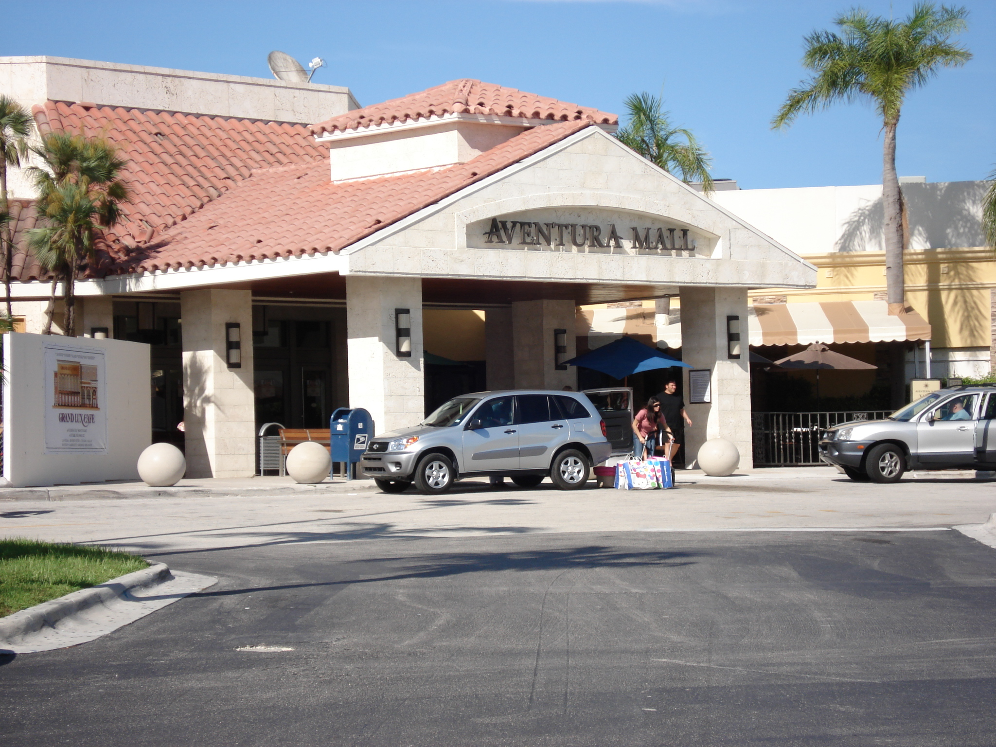 Aventura Mall, Miami-Dade County, Florida, USA.